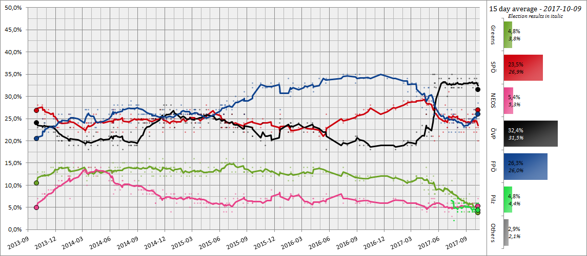 Austrian opinion polls from the election 2013 to the next. 30 day moving average from the election in 2013 till 2017-09-15, then 15 day moving average till the election in 2017